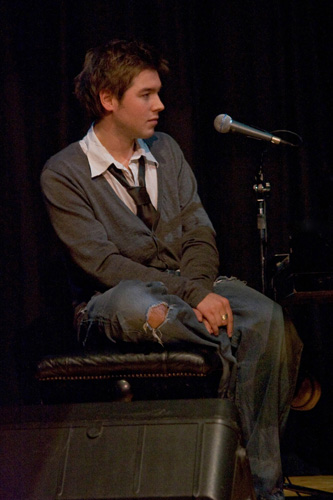 David Sneddon at Highbarn, Essex.